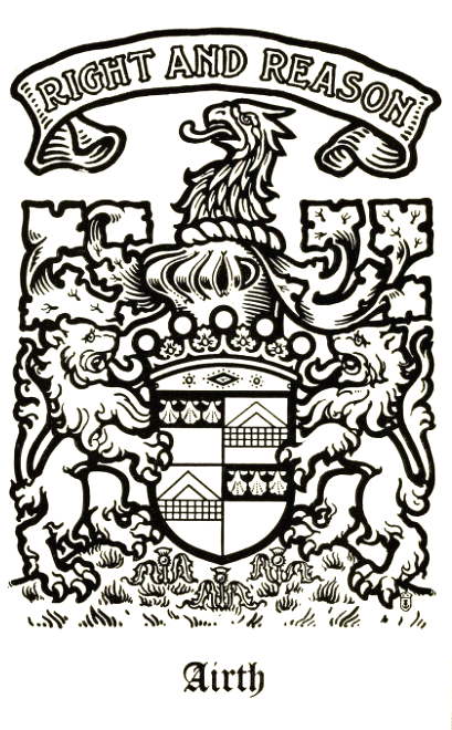 The Scots peerage; founded on Wood's edition of Sir Robert Douglas's peerage of Scotland; containing an historical and genealogical account of the nobility of that kingdom by Paul, James Balfour, Sir, 1846-1931, ed. dn Published 1904